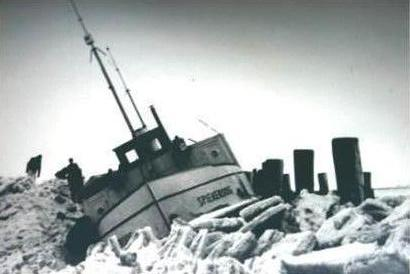 Spiekeroog im Eis, Anfang 1963